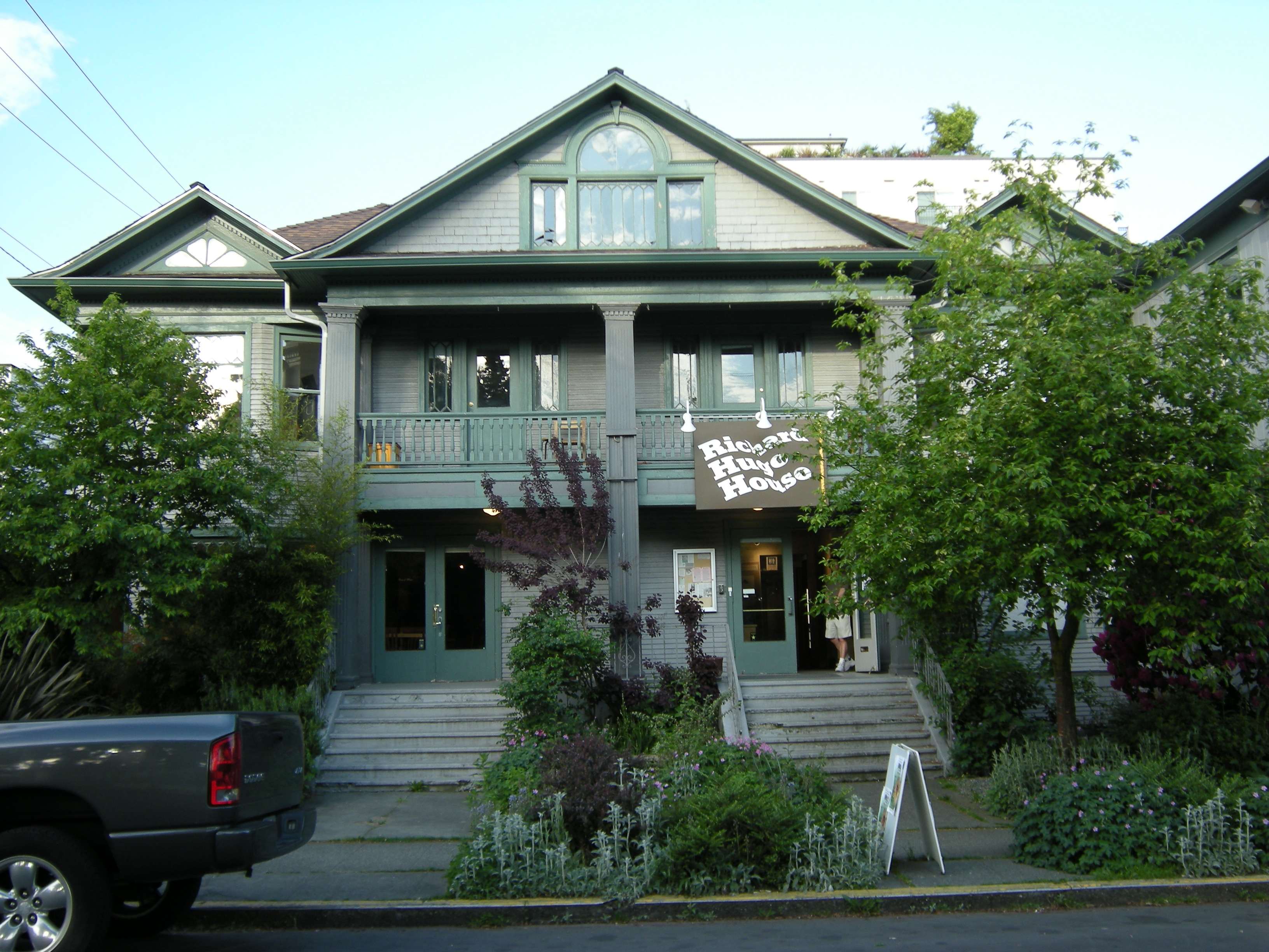 Richard Hugo House, 1634 11th Avenue, Capitol Hill, Seattle, Washington, USA. The facility, named after poet Richard Hugo, houses numerous writing-related programs, a theater, and the Zine Archive Publishing Project (ZAPP), a library of zines. Prior to being the Hugo House, this was the home of New City Theater (which continues to produce, but no longer has a space of its own).